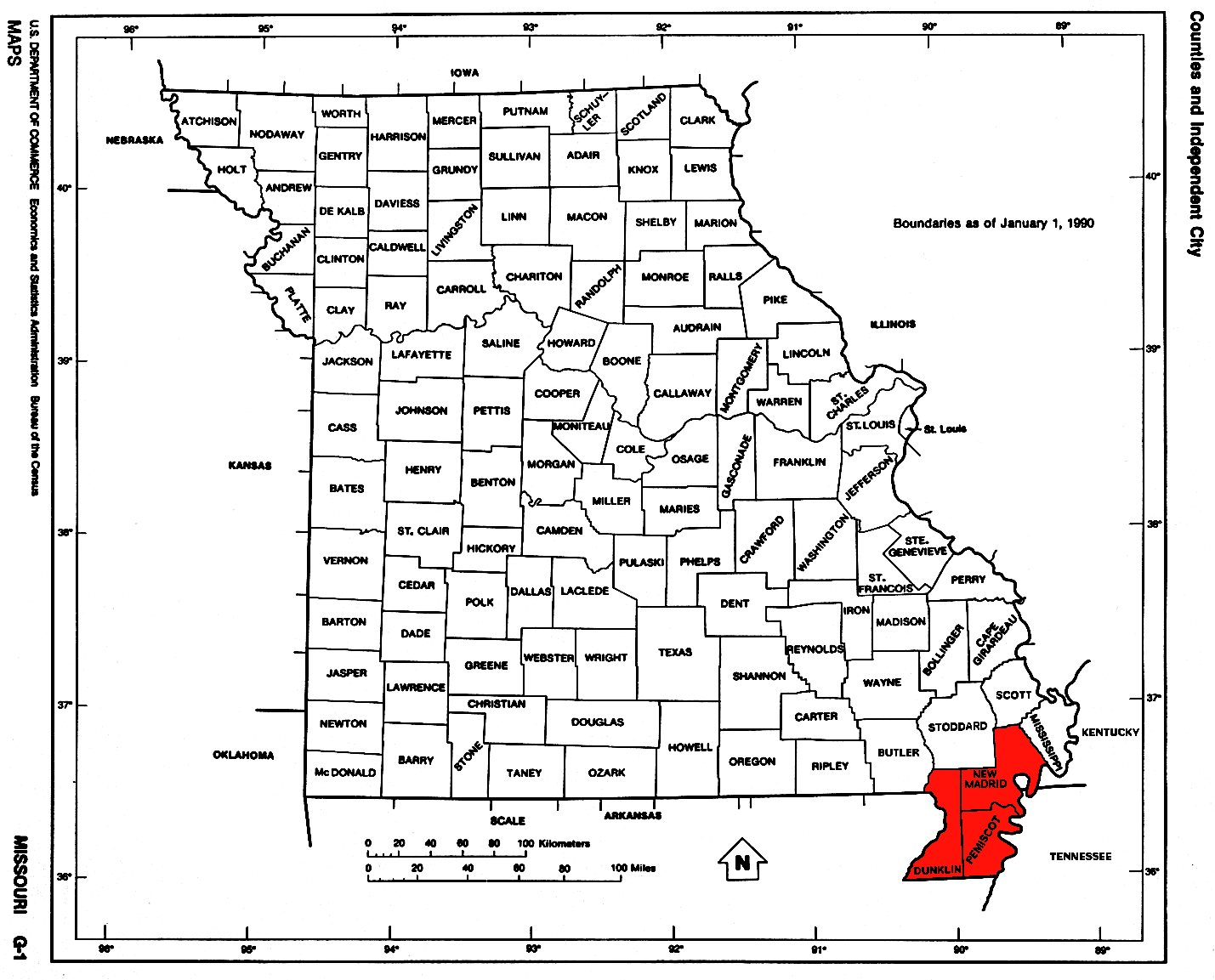 Edited Image:Missouri counties.gif in w: .